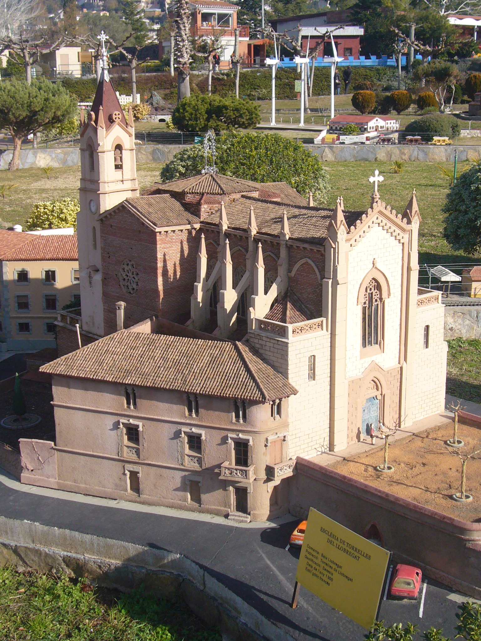 Scale model at the "Catalunya en Miniatura" miniature park : Church of Torrelles de Llobregat